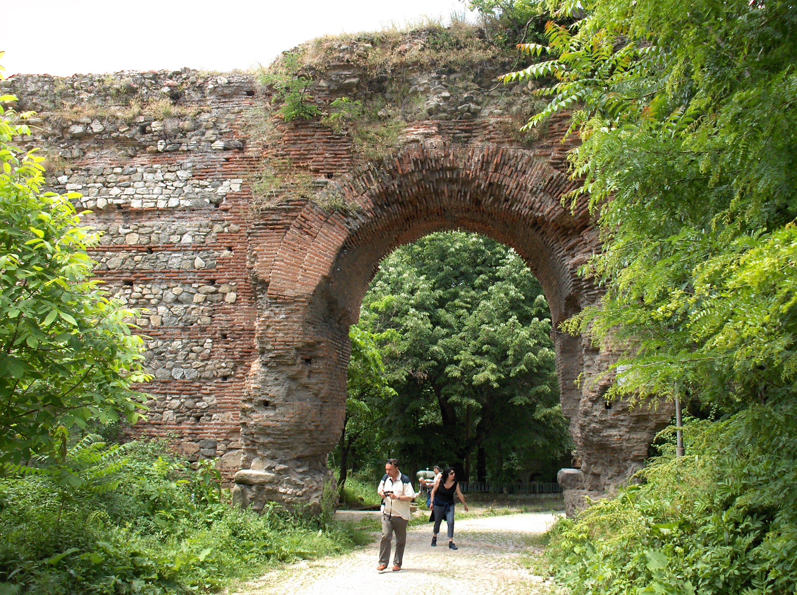 The South gate of Hisarya's Late Roman city wall, the best preserved in Bulgaria